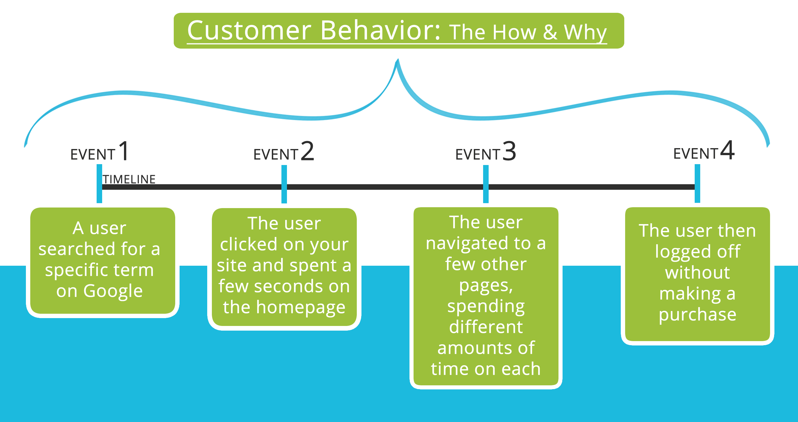 This chart shows how a number of individual actions by one user can be grouped together to describe overall user behavior on a give web application of site.